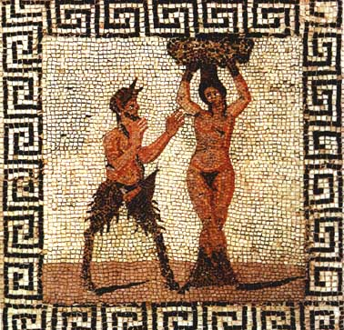 Mosaic, Pan & Hamadryad, false in the Archaeological Museum in Naples (inv. nr. 27708).